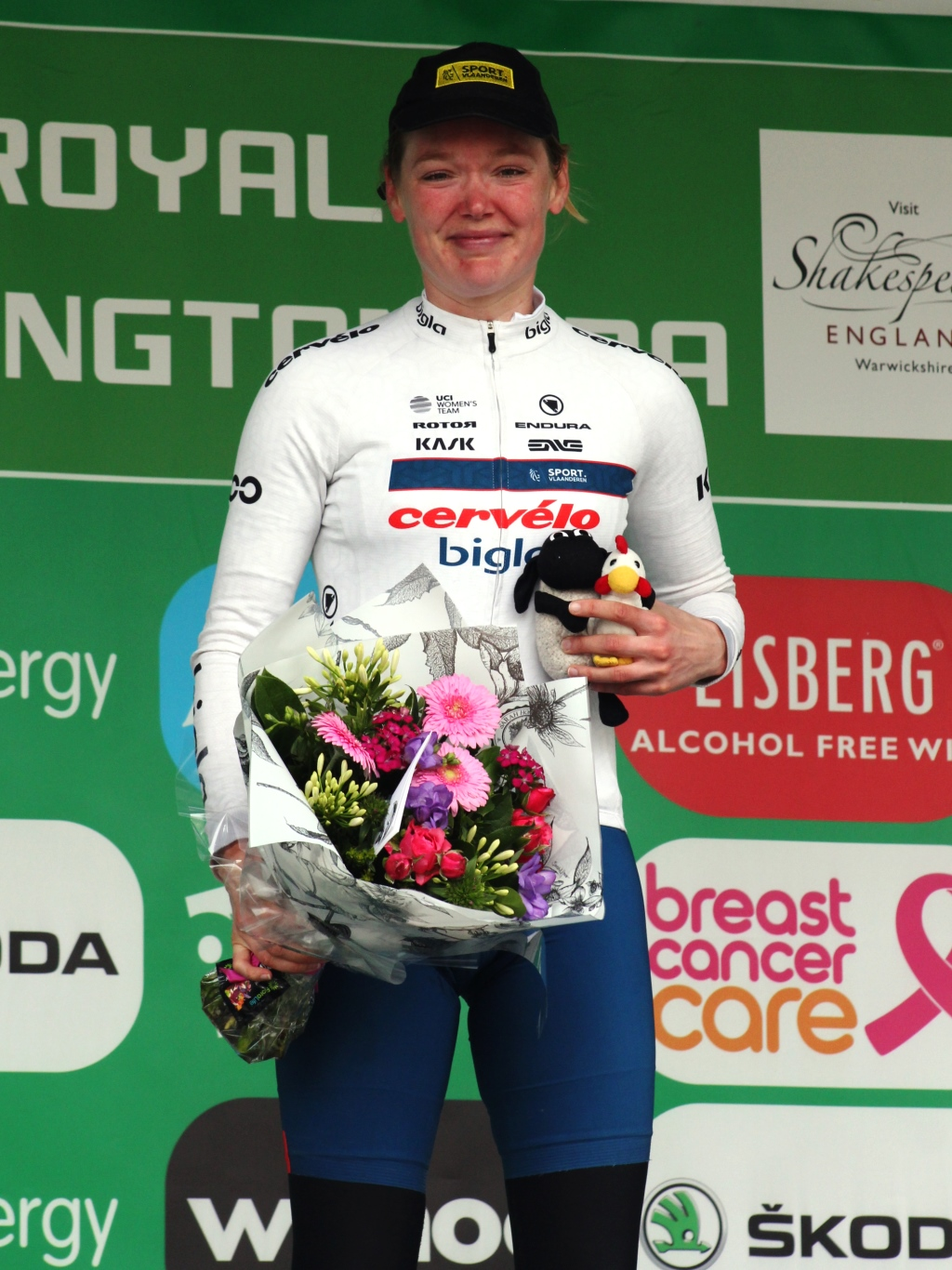 Ann-Stophie Duyck receives the prize for the most combative rider on stage 3 of the 2018 Women's Tour which finished at Royal Leamington Spa.